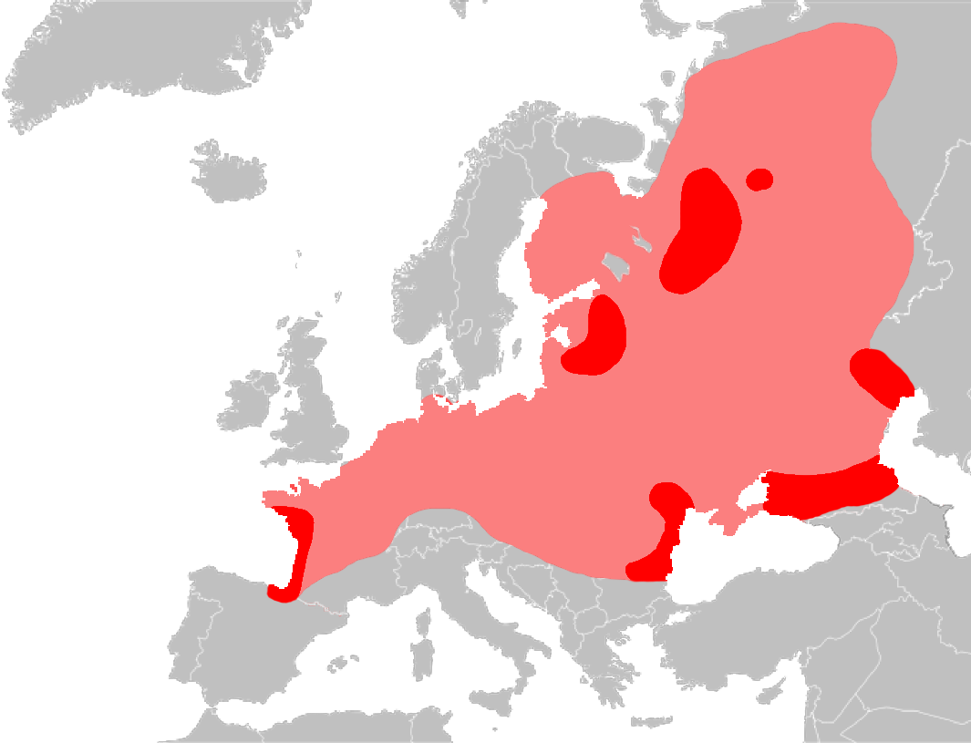 Distribution map of Mustela lutreola. Historical range (pink), present range (red)